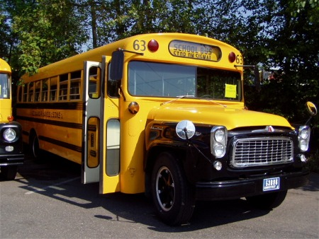 1961 Thomas International school bus. Thomas Body on International Chassis. Photographed at Bus Festival - Rocky Hill, CT. This bus was ridden on by Double A's owner in kindergarten. Amazingly, he tracked down the bus many years later, and fully restored it.